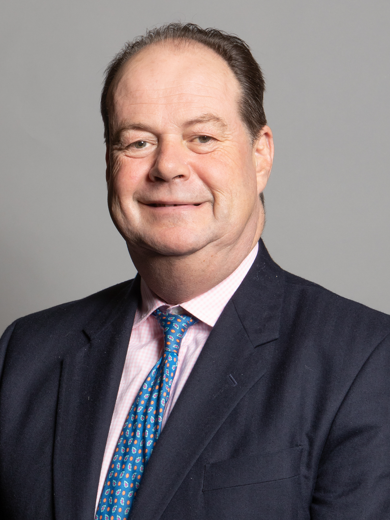 Official portrait of Stephen Hammond MP 3×4 portrait of Stephen Hammond